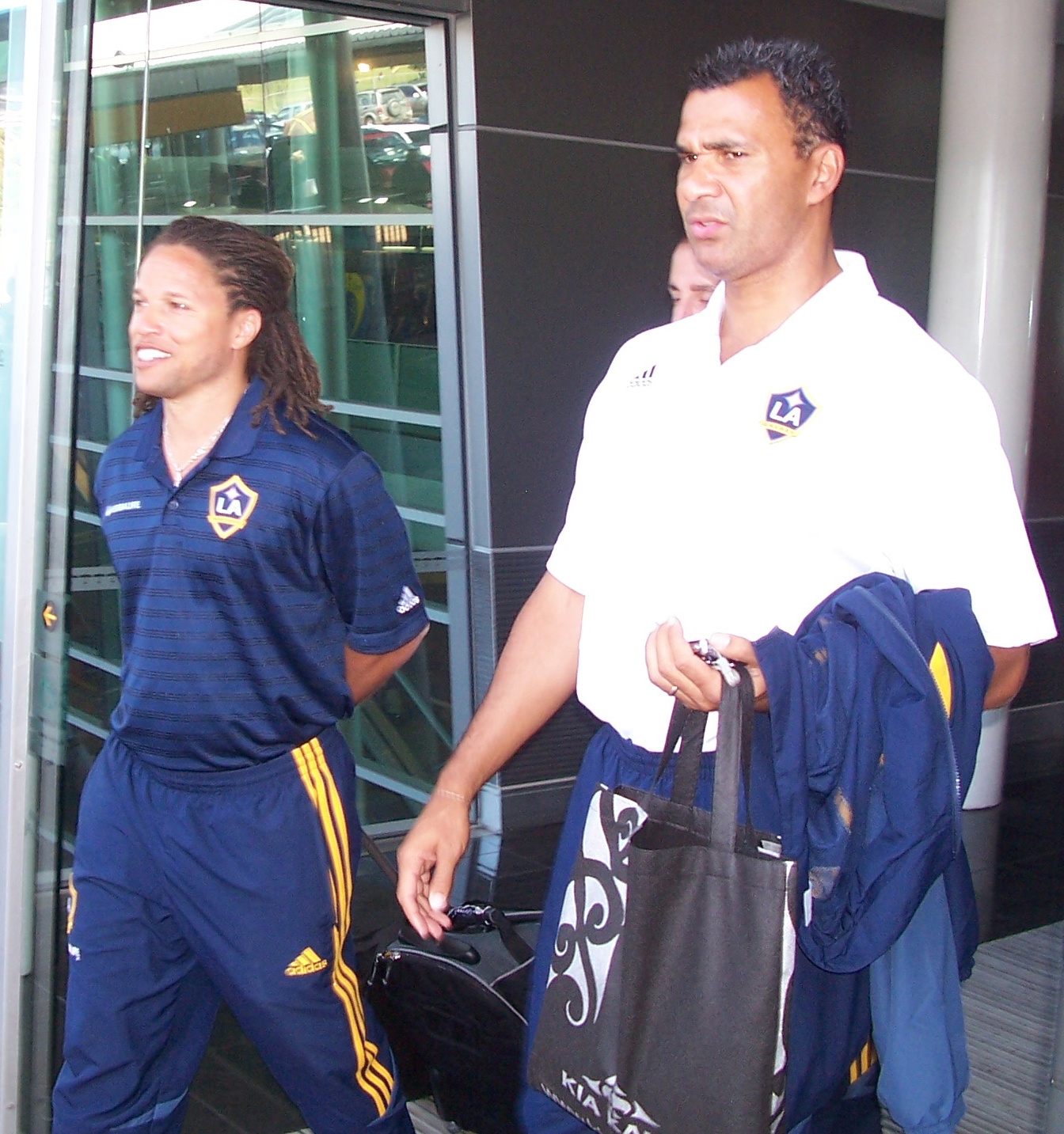 Cobi Jones (left) and Ruud Gullit leaving Wellington International Airport following the arrival of the LA Galaxy team to face the Wellington Phoenix